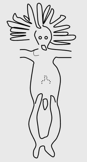 Relief on Krkavce megalite.